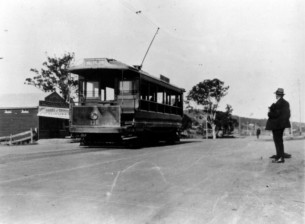 Holland Park tram terminus on Logan Road, Brisbane ca.1929 Tram number 136 waiting at the Holland Park terminus to take passengers to Fortitude Valley in Brisbane. The terminus was near Arnold Street, just west of Marshall Road. A small grocery store is beside the terminus. The tram in this image is being restored by the Brisbane Tramway Museum.